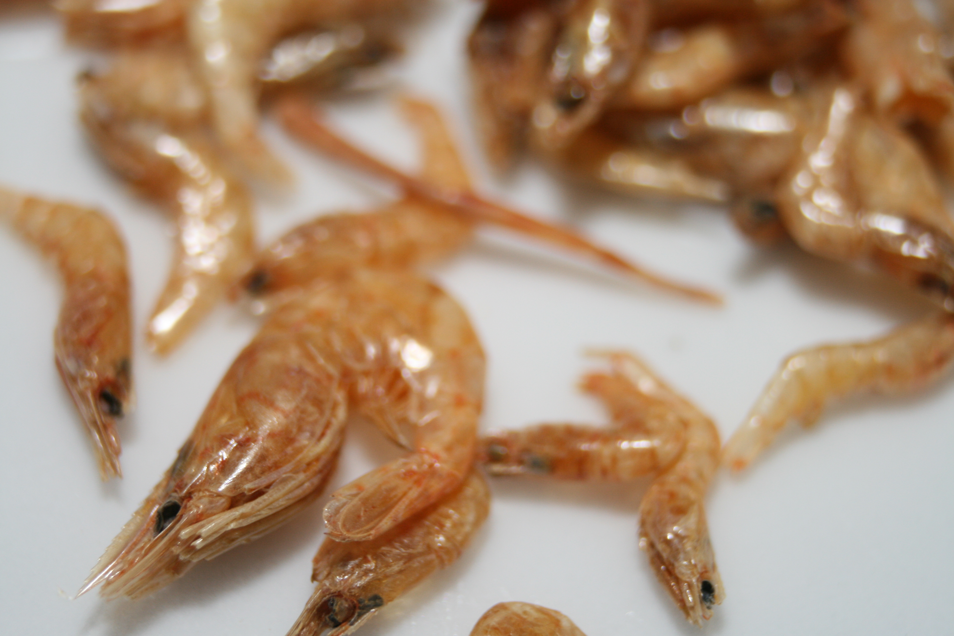 river shrimp. freeze dried.